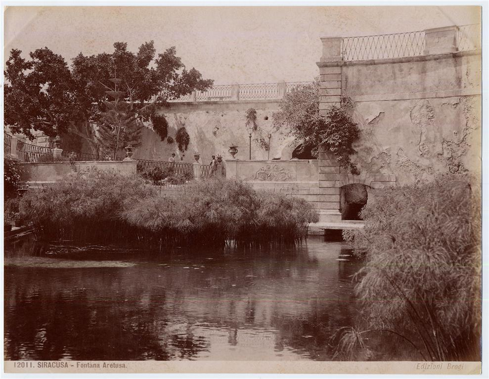 Carlo Brogi (1850-1925) - "Syracuse - Aretusa's spring". Catalogue # 12.011.